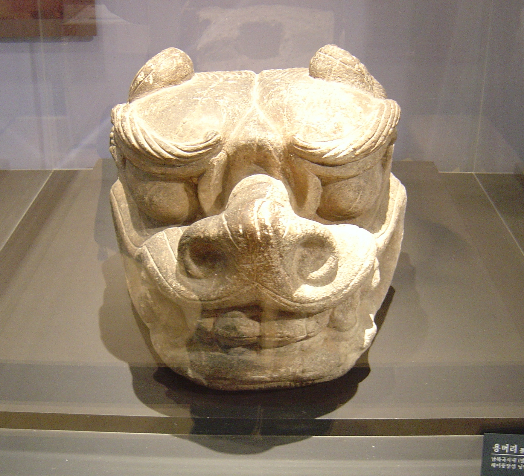 A dragon head from Balhae displayed at the National Museum of Korea.